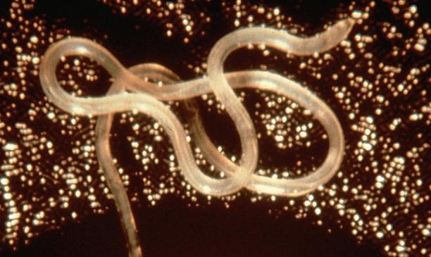 Adult Loa loa parasite. Loa loa is the filarial nematode (roundworm) species that causes loa loa filariasis. It is commonly known as the "eye worm." Its geographic distribution includes Africa and India.